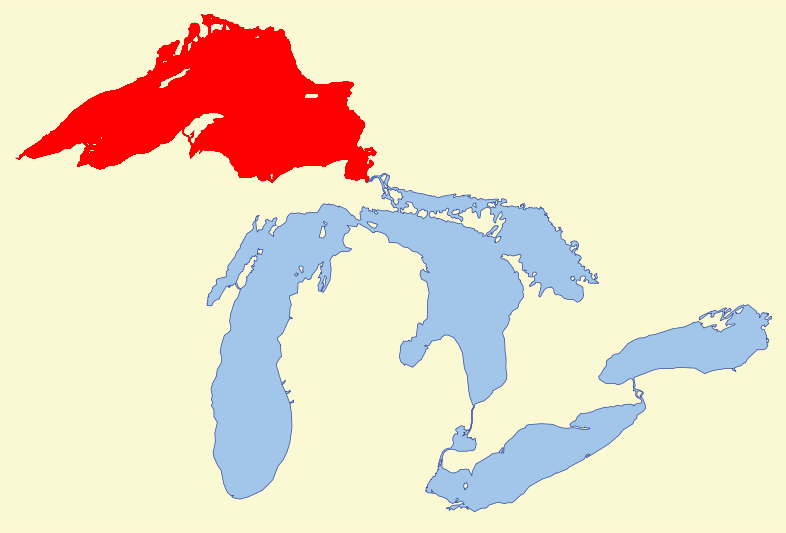 Map of Lake Superior